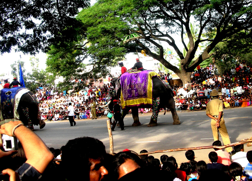 This is an image of the Dasara procession that takes place annually at Mysore, India